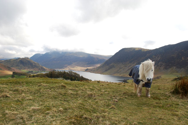 Summit of Lanthwaite Hill A summit view from the modest heights of Lanthwaite Hill. A popular excursion in Victorian days, this viewpoint is now often overlooked by higher fare all around. Rannerdale Knots, Melbreak and the High Stile range shrouded in cloud can be seen, along with Crummock Water.